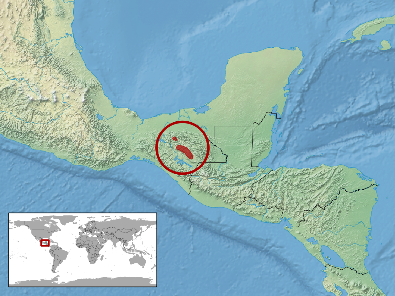 geographic distribution of Cerrophidion tzotzilorum (Native: Mexico)